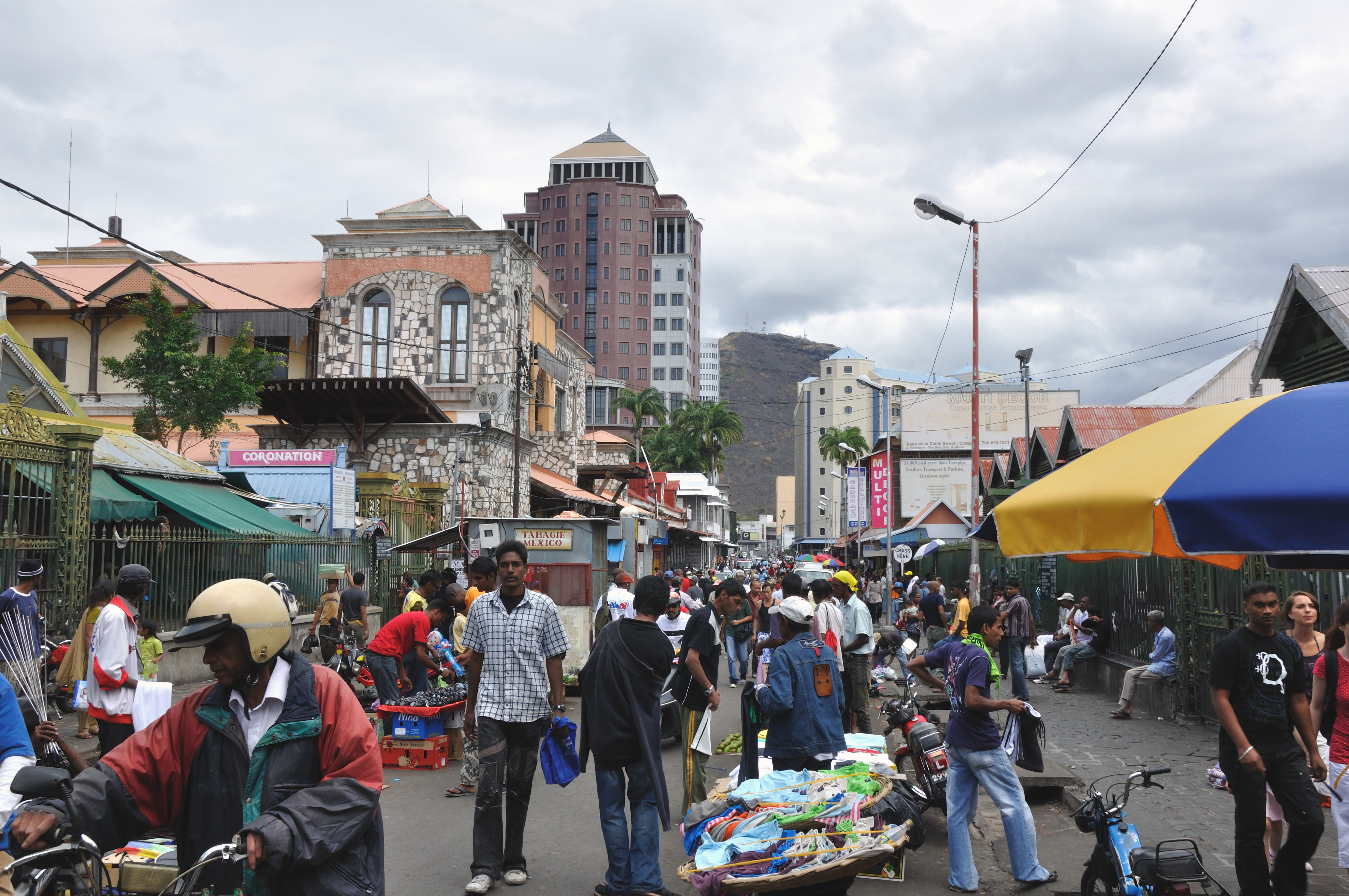 Mauritius, Market in Port Louis